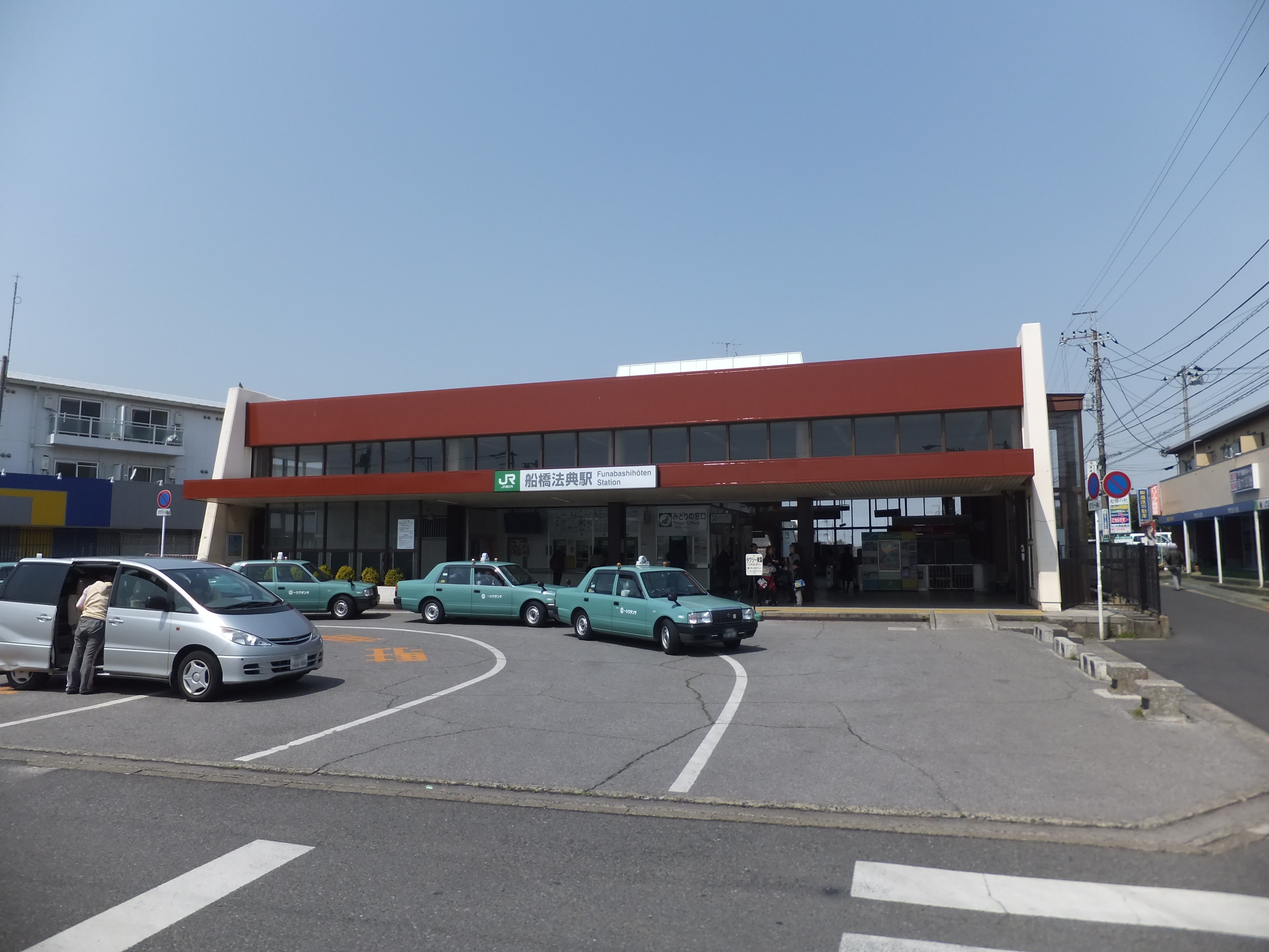 Funabashi-Hōten Station on the Musashino Line